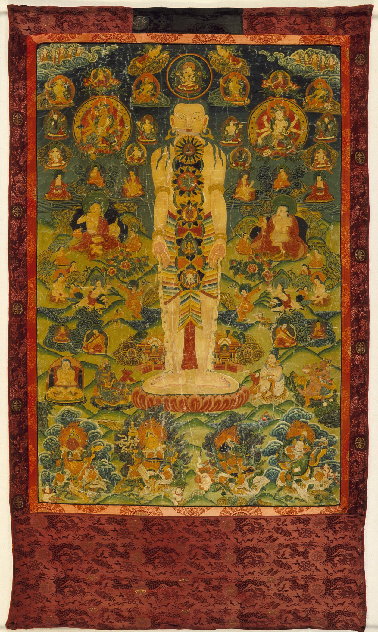 Central Tibet, circa 19th century Paintings Mineral pigments and gold on cotton cloth; silk borders Gift of Dr. Mark and Dorothy Stern (M.91.118) South and Southeast Asian Art